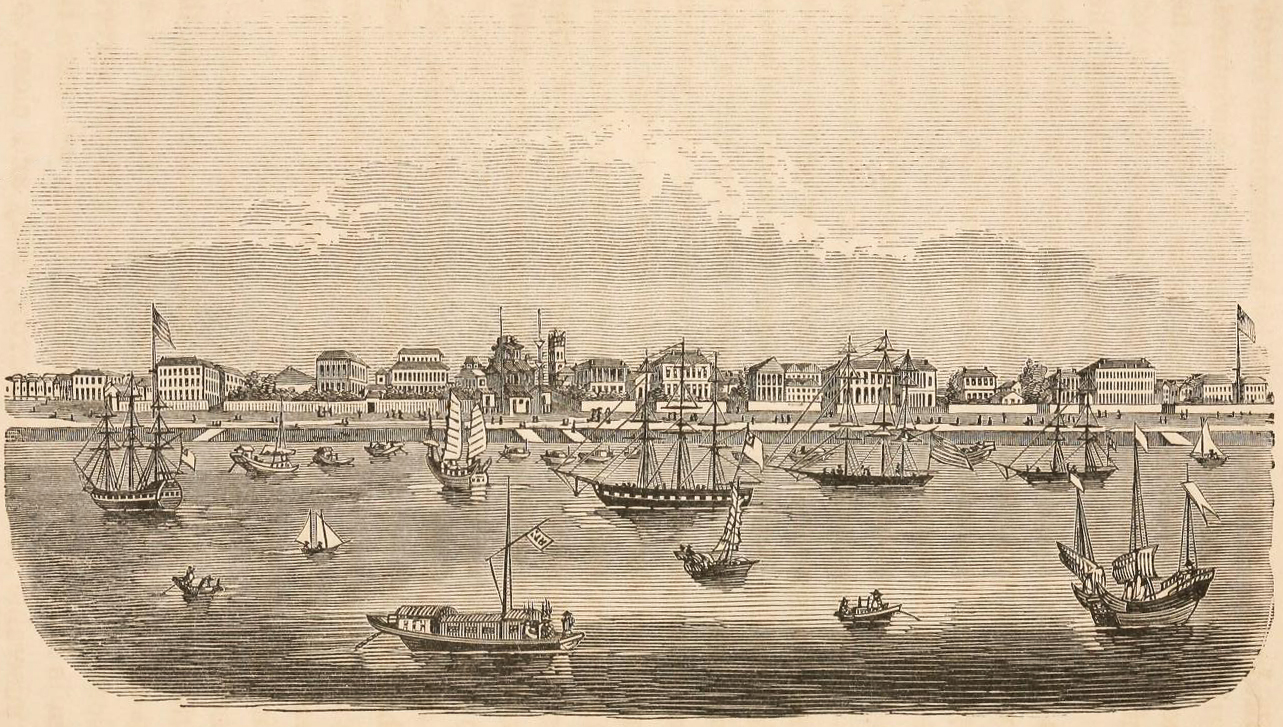 The pioneer of American missions in China : the life and labors of Elijah Coleman Bridgman by Bridgman, E. C. (Elijah Coleman), 1801-1861; Bridgman, Eliza Jane Gillett Text below the image: "Shanghai - Foreign Settlement."